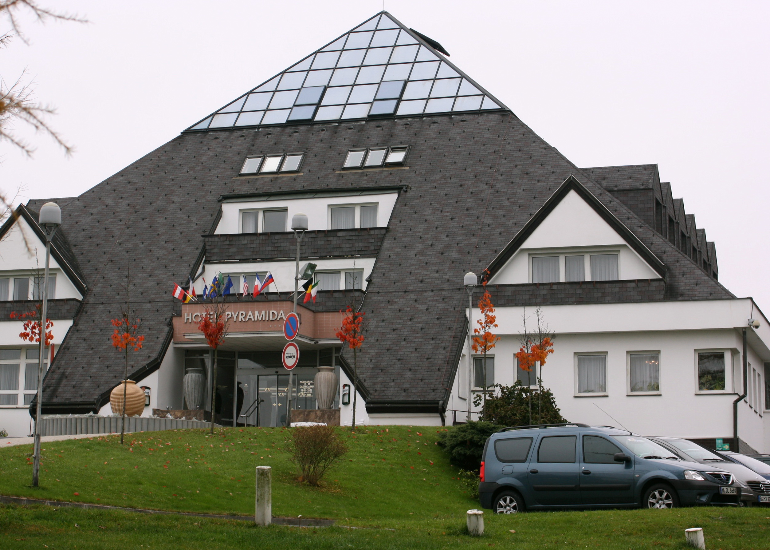 Pyramida - Hotel in Františkovy Lázně, Czech Republic.